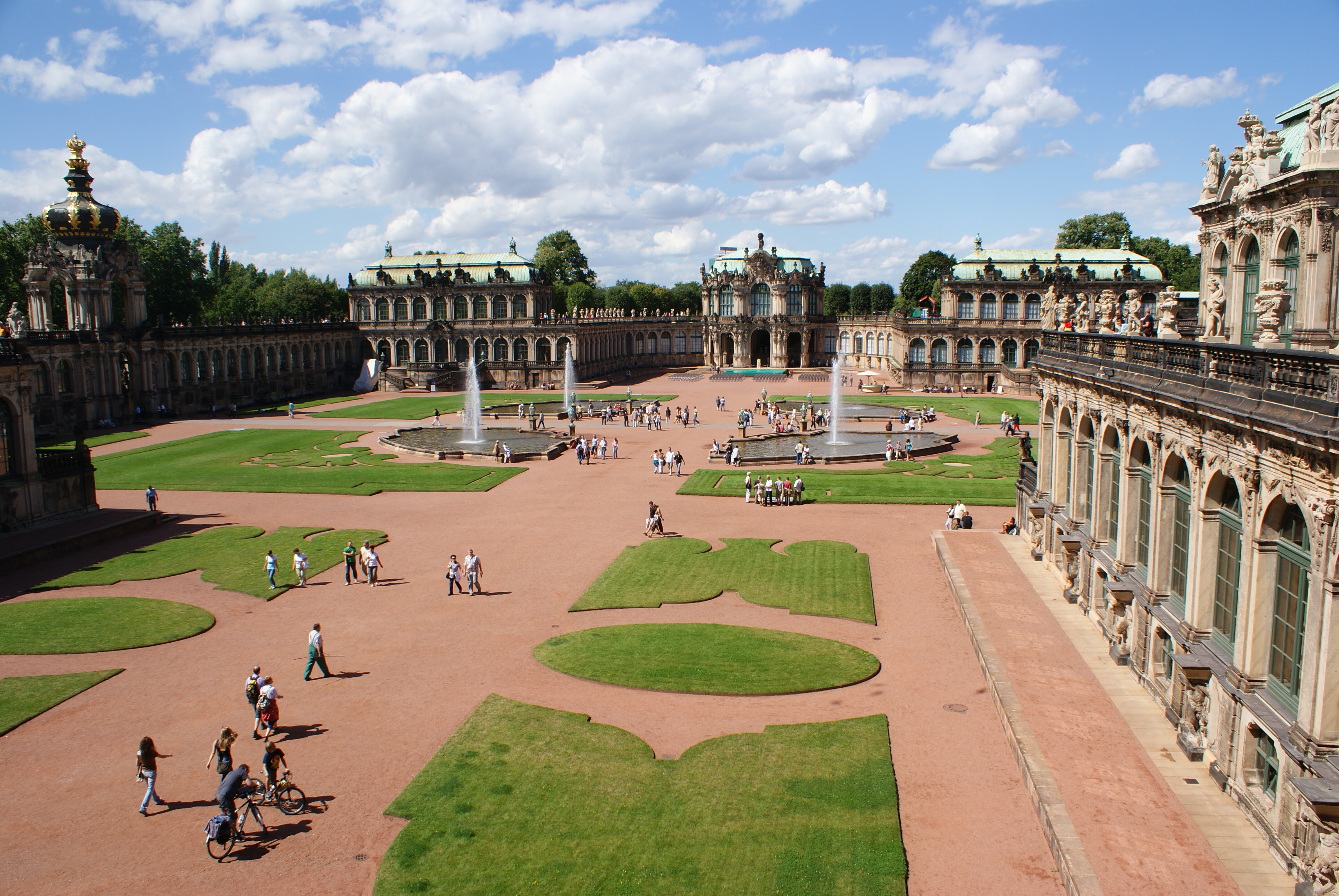 Zwinger, Dresden, Saxony, Germany